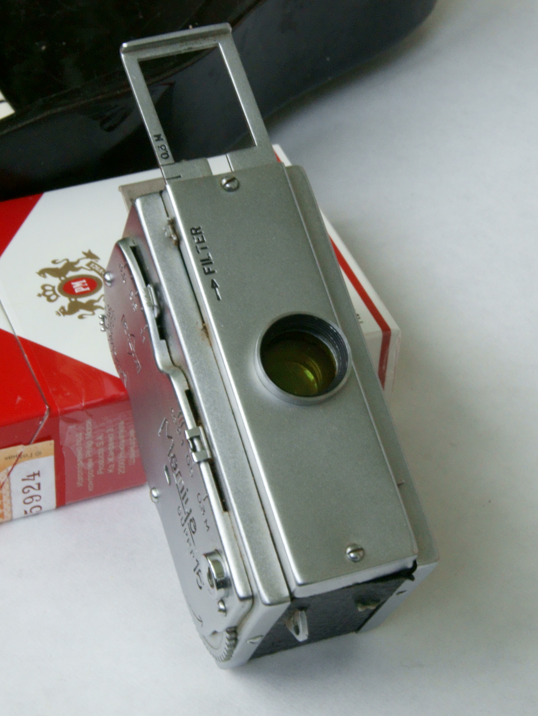 Camera has a built-in yellow filter that can be slid in front of the lens as in Minox cameras.